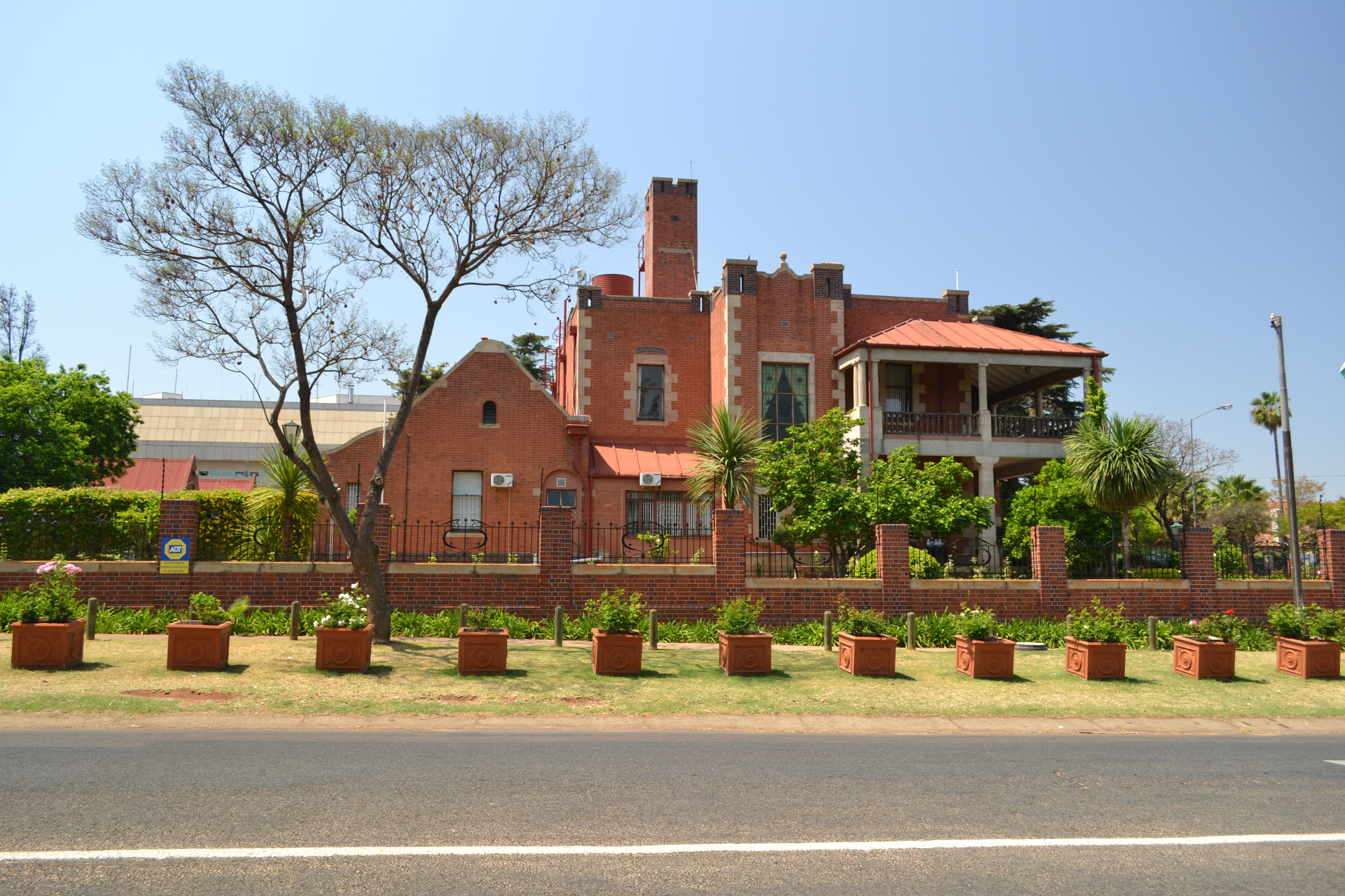 Arkleton, 852 Schoeman Street Arcadia Pretoria This media shows a South African Protected Site with SAHRA file reference 9/2/258/0138 .